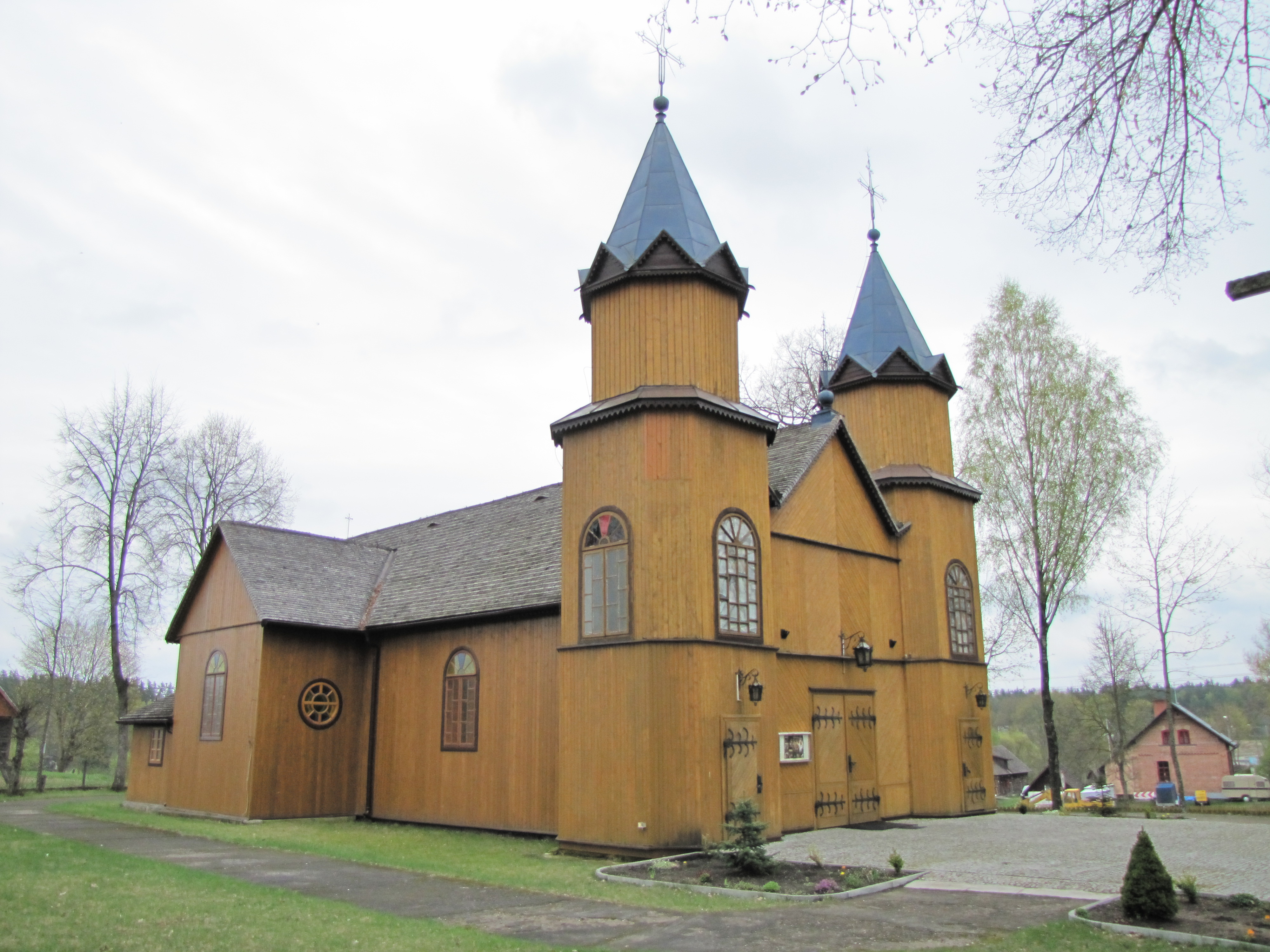 Wooden church in Mikaszówka, Poland.